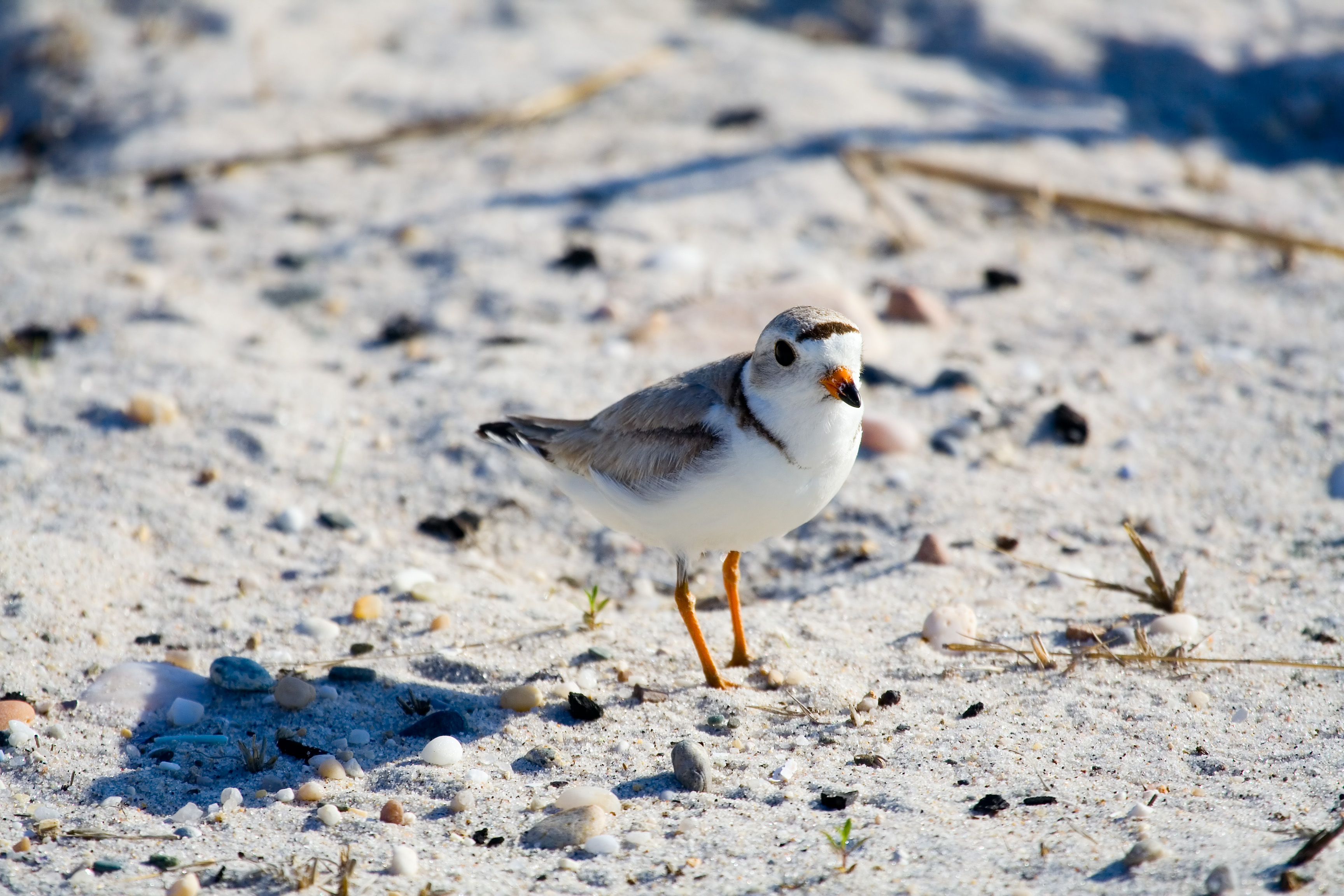 Piping Plover on Long Island, New York